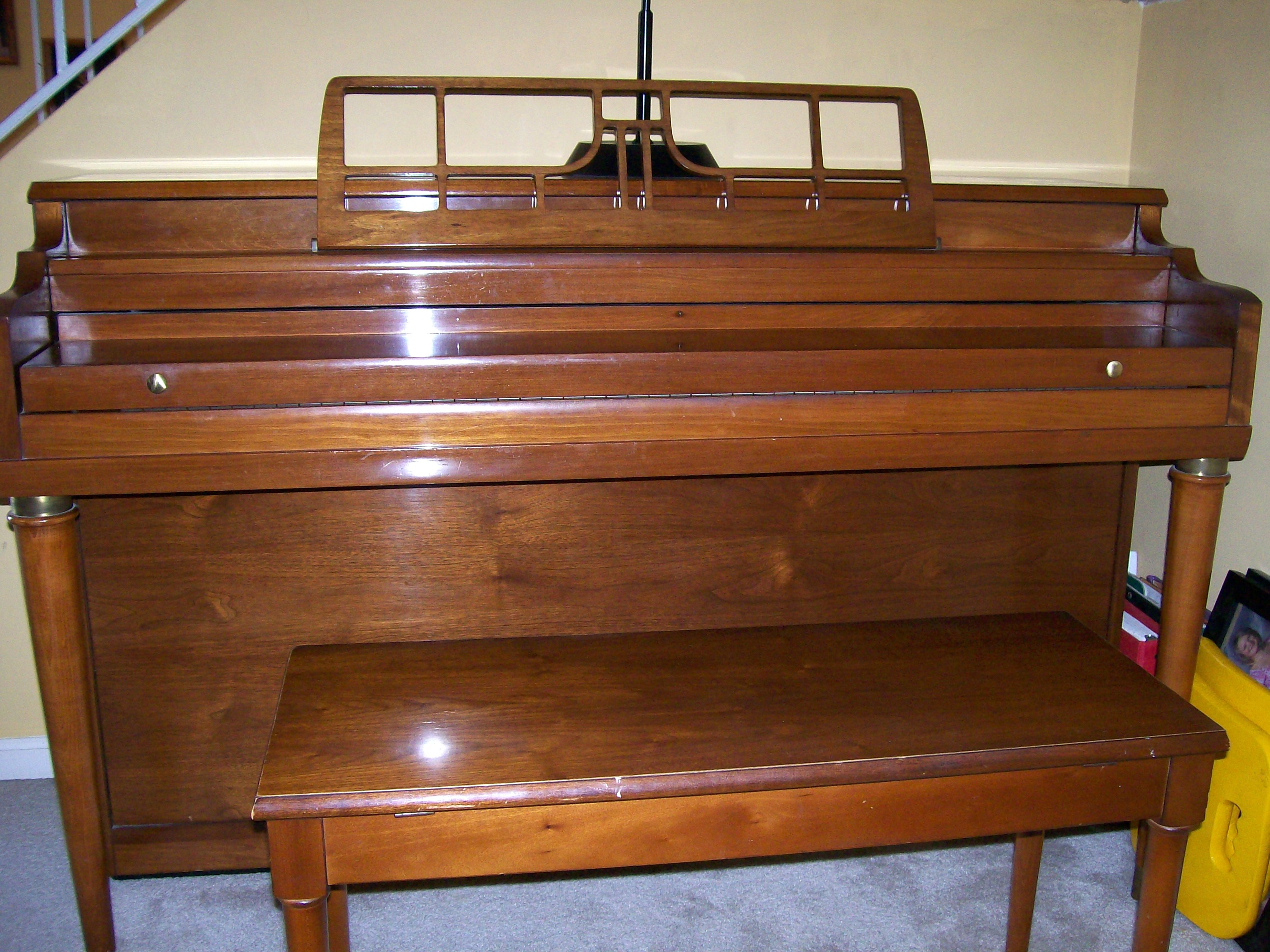 Gulbransen spinet piano with a new set of plastic elbows. This piano was tuned and brought back to life.